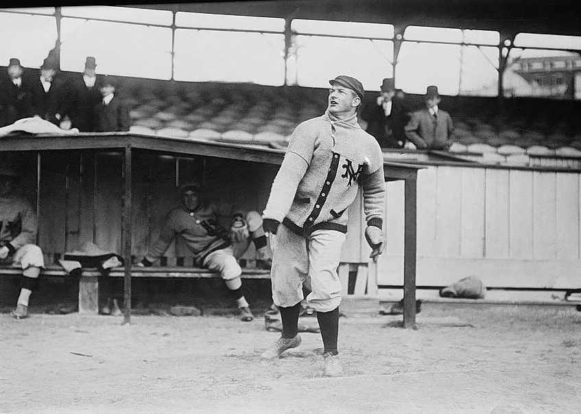 Bain News Service,, publisher. [Christy Mathewson, New York NL (baseball)] [1909] 1 negative : glass ; 5 x 7 in. or smaller. Notes: Original data provided by the Bain News Service on the negatives or caption cards: Christy Mathewson, Giants. Corrected title and date based on research by the Pictorial History Committee, Society for American Baseball Research, 2006. Forms part of: George Grantham Bain Collection (Library of Congress). Format: Glass negatives. Repository: Library of Congress, Prints and Photographs Division, Washington, D.C. 20540 USA, General information about the Bain Collection is available at Persistent URL: Call Number: LC-B2- 2516-4